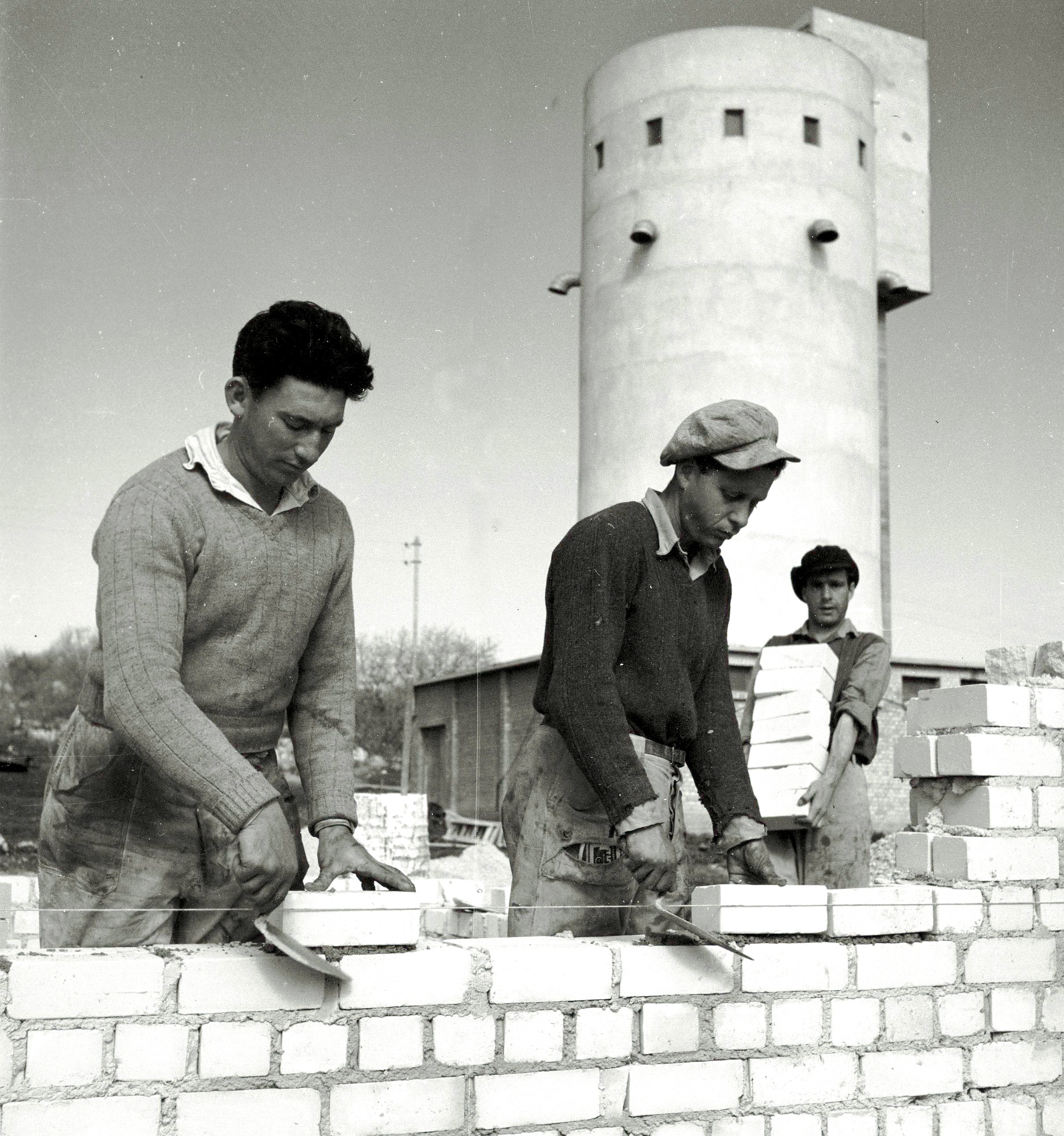 Members of the first youth aliya group from germany building new houses at their ultimate permanent settlement kibbutz Alonim.